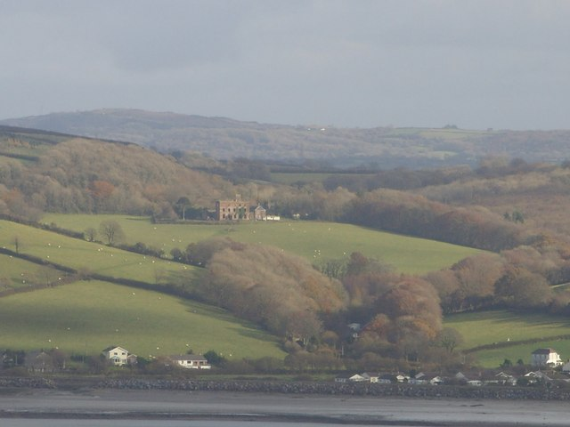 The derelict manor house of Iscoed overlooking Ferryside